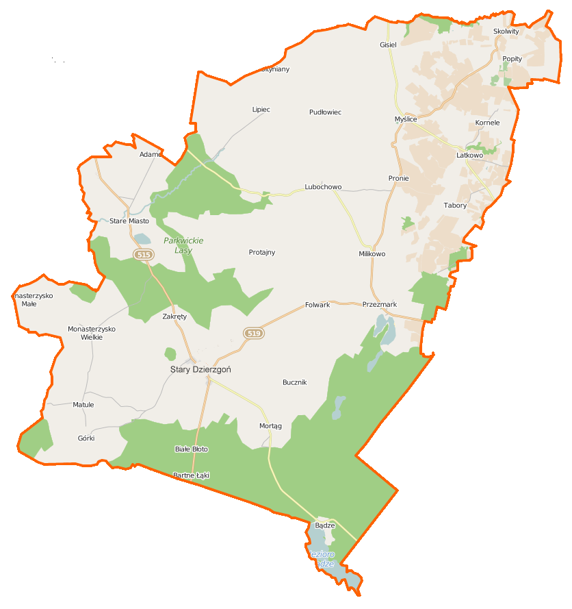 Map of Gmina Stary Dzierzgoń, Poland This map of Stary Dzierzgoń (gmina) was created from OpenStreetMap project data, collected by the community. This map may be incomplete, and may contain errors. Don't rely solely on it for navigation.